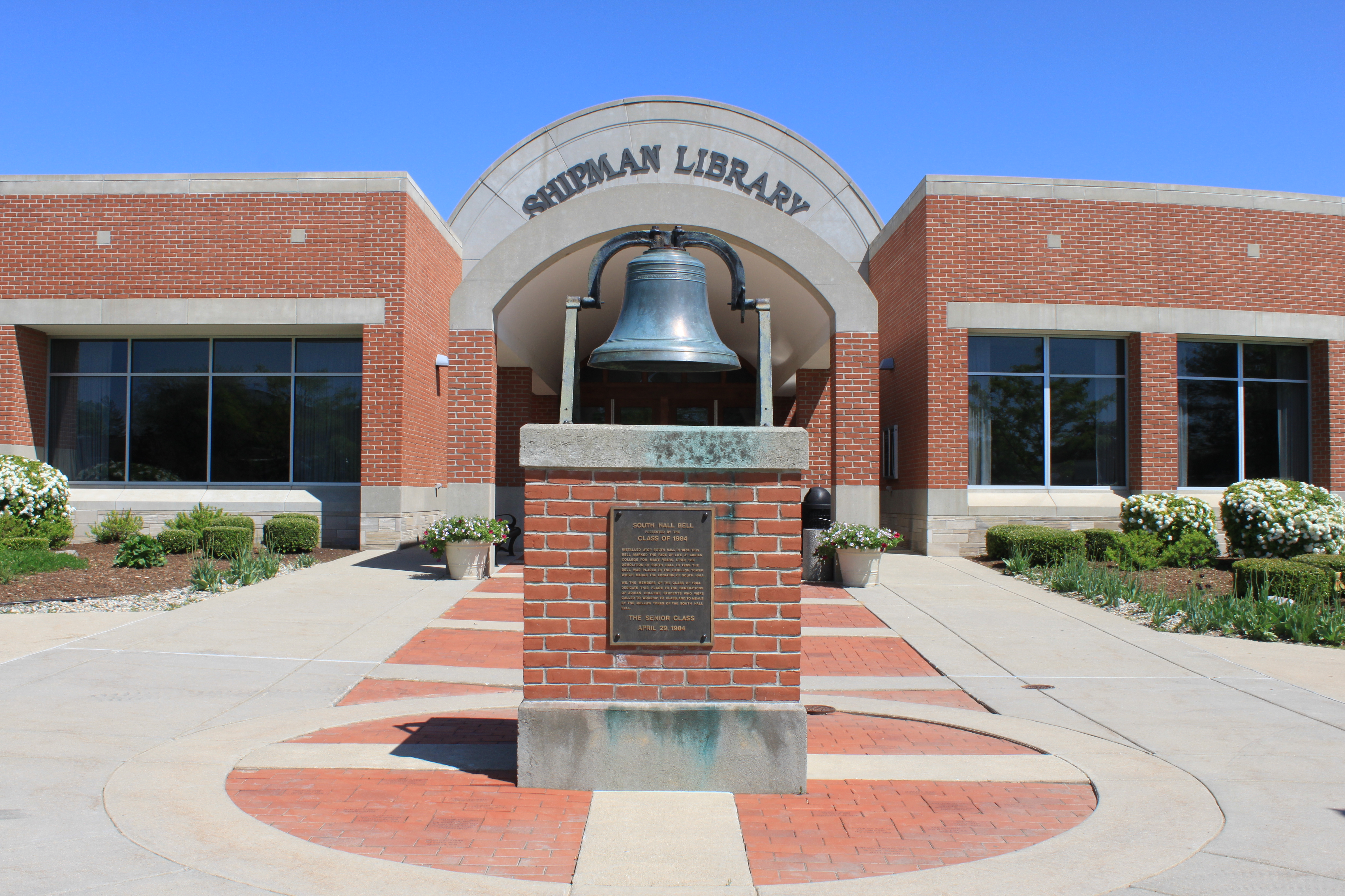 Shipman Library,Adrian College, Adrian Michigan